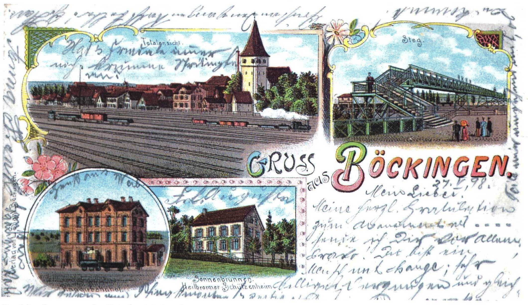 1898 Böckingern Postkarte